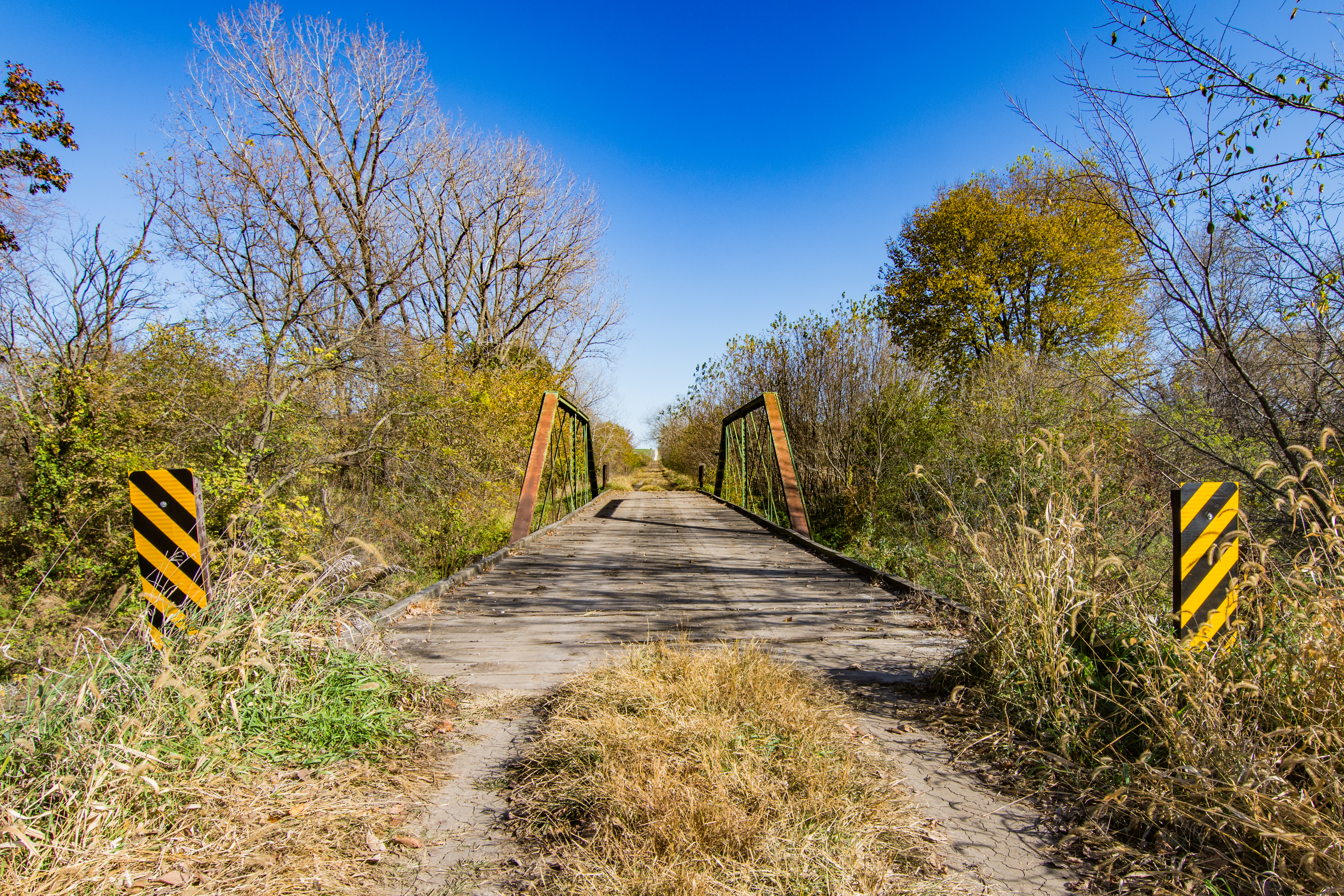 Snider Bridge over Kemp Creek near Nodaway Iowa.